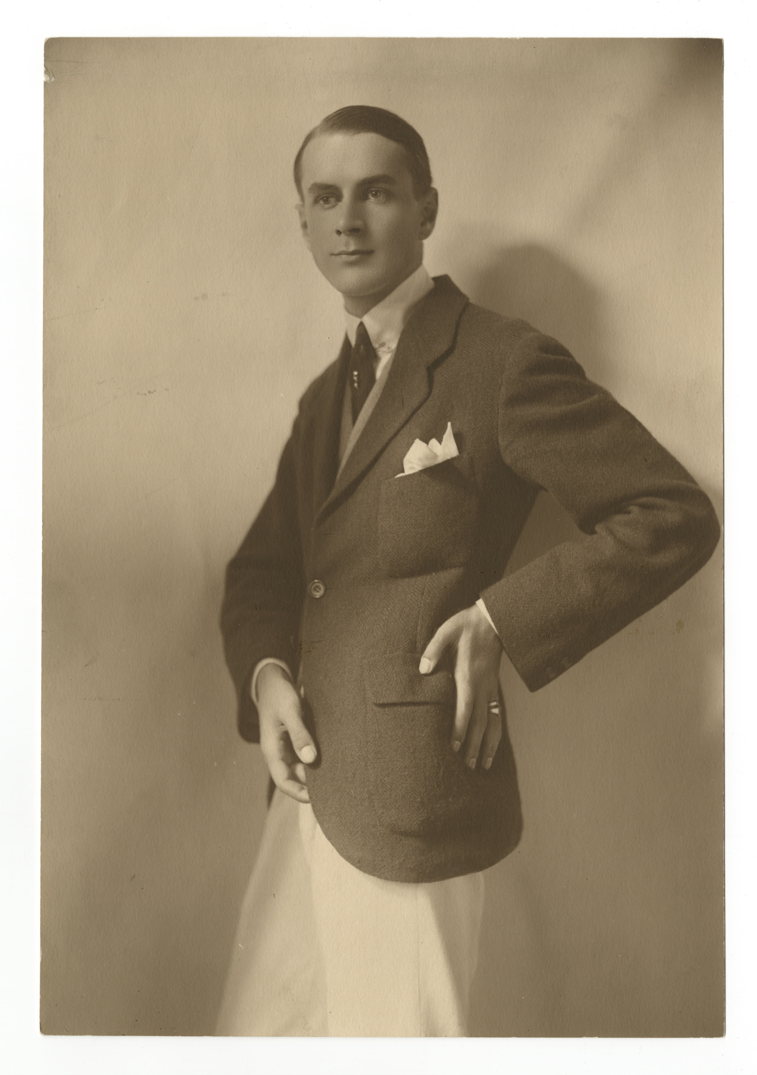 Photograph of the Swedish painter Nild Dardel (1888–1943).